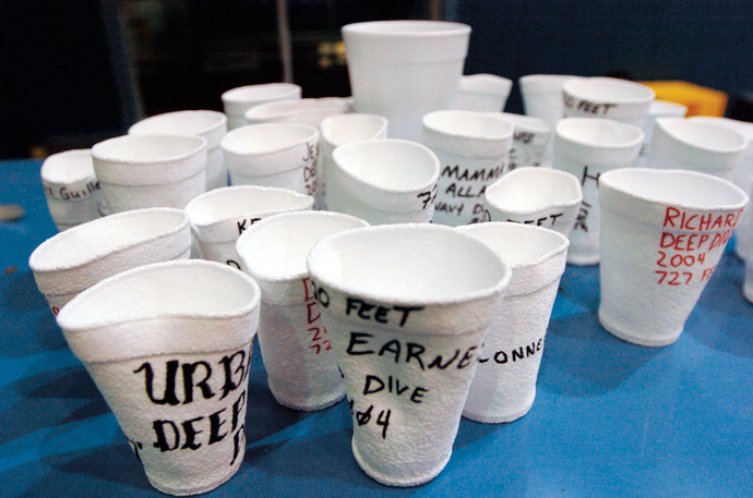 030216-N-6967M-021 The pressure at 700 feet is enough to turn these styrofoam cups into shot glasses. Divers write on the 16-ounce cups before the dive, so they have souvenirs for family members. (All Hands, June 2004, pg. 0) Photo by Photographer's Mate 1st Class (AW) Shane T. McCoy. This photo was taken for, but did not appear in the magazine. (RELEASED)